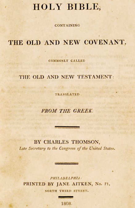 Thompson Holy Bible 1808